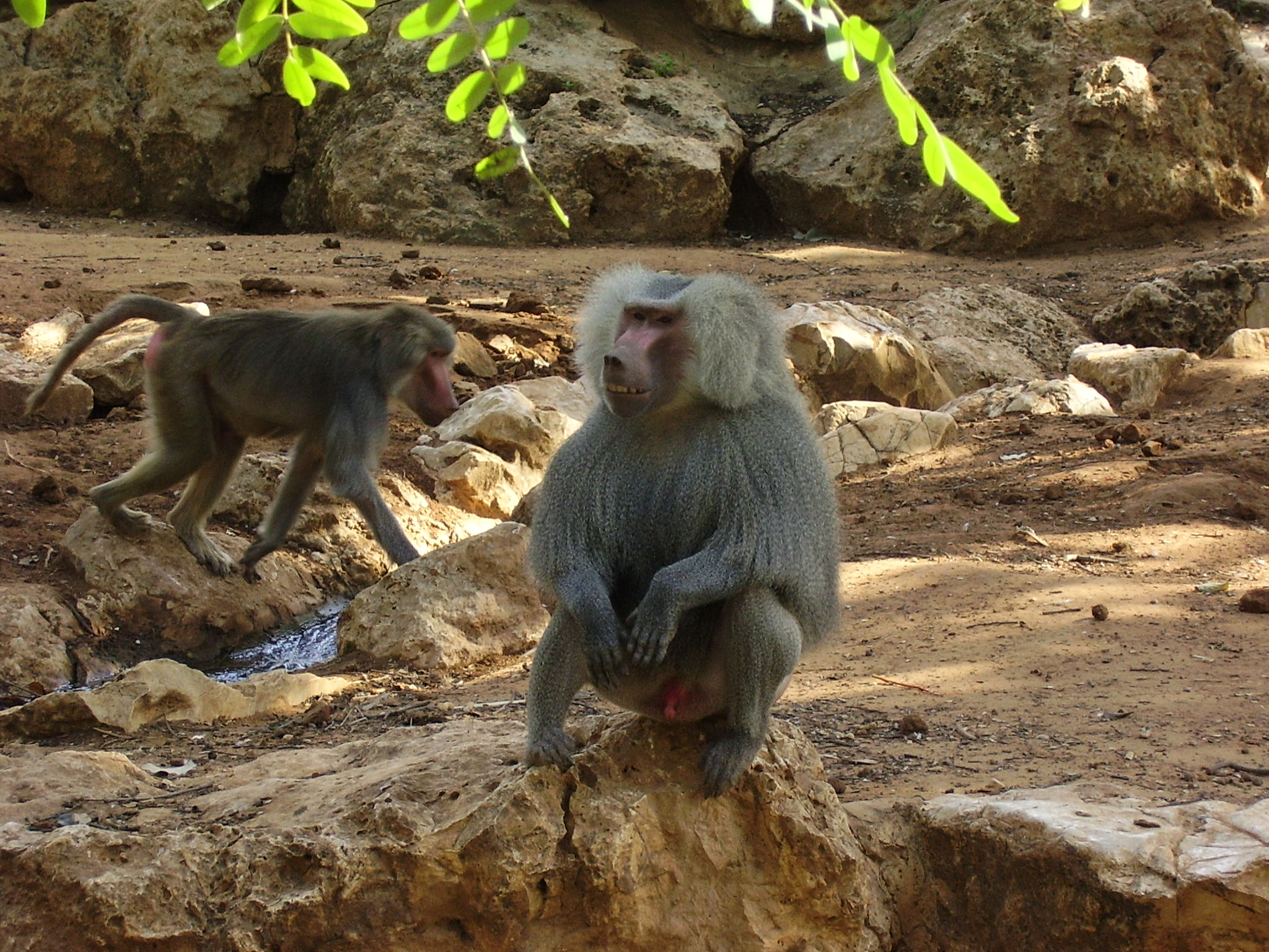 baboon monkey in the safari in ramat gan